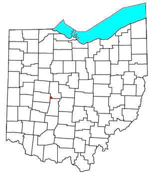 Locator map of the unincorporated community of Irwin in Union County, Ohio, United States.